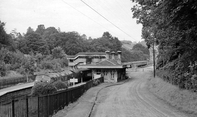 Box Station. View eastward, towards Swindon and London; ex-GWR Paddington - Bristol Main line. Station (classical Brunel) closed 4/1/65. A 'Warship' class Diesel-Hydraulic is passing on the 16.45 Paddington - Bristol - Taunton.